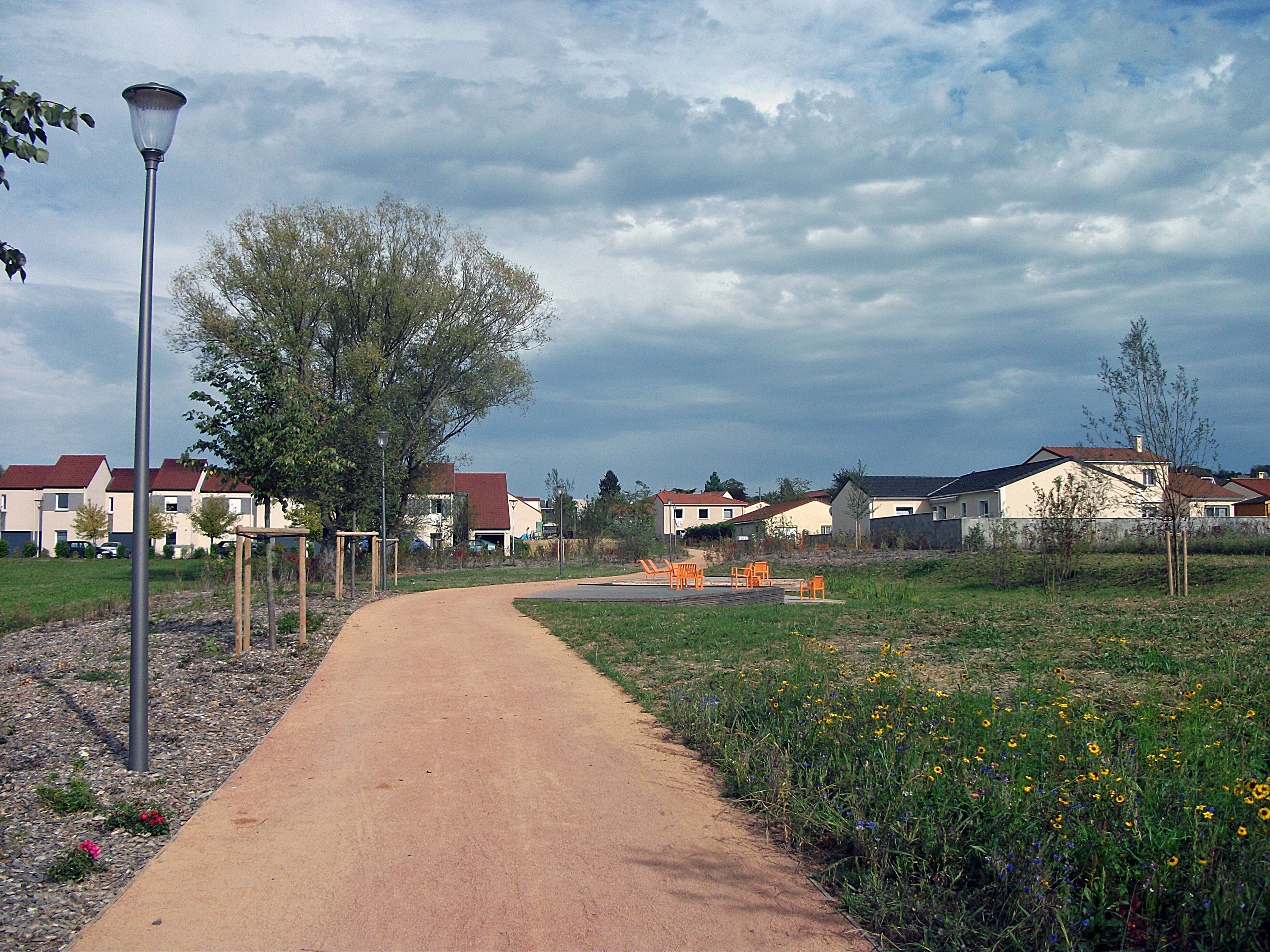 Coulée verte de Puy-Besseau from Puy-Besseau avenue, inaugurated in September 2013. [4121]